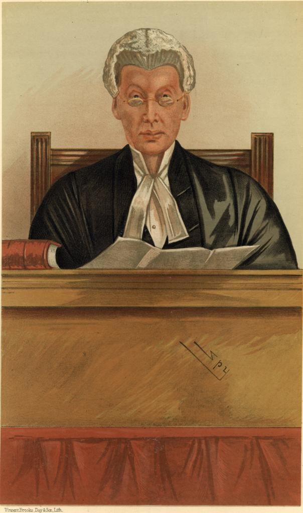 Caricature of Joseph William Chitty - "The Umpire" - Spy - March 28, 1885